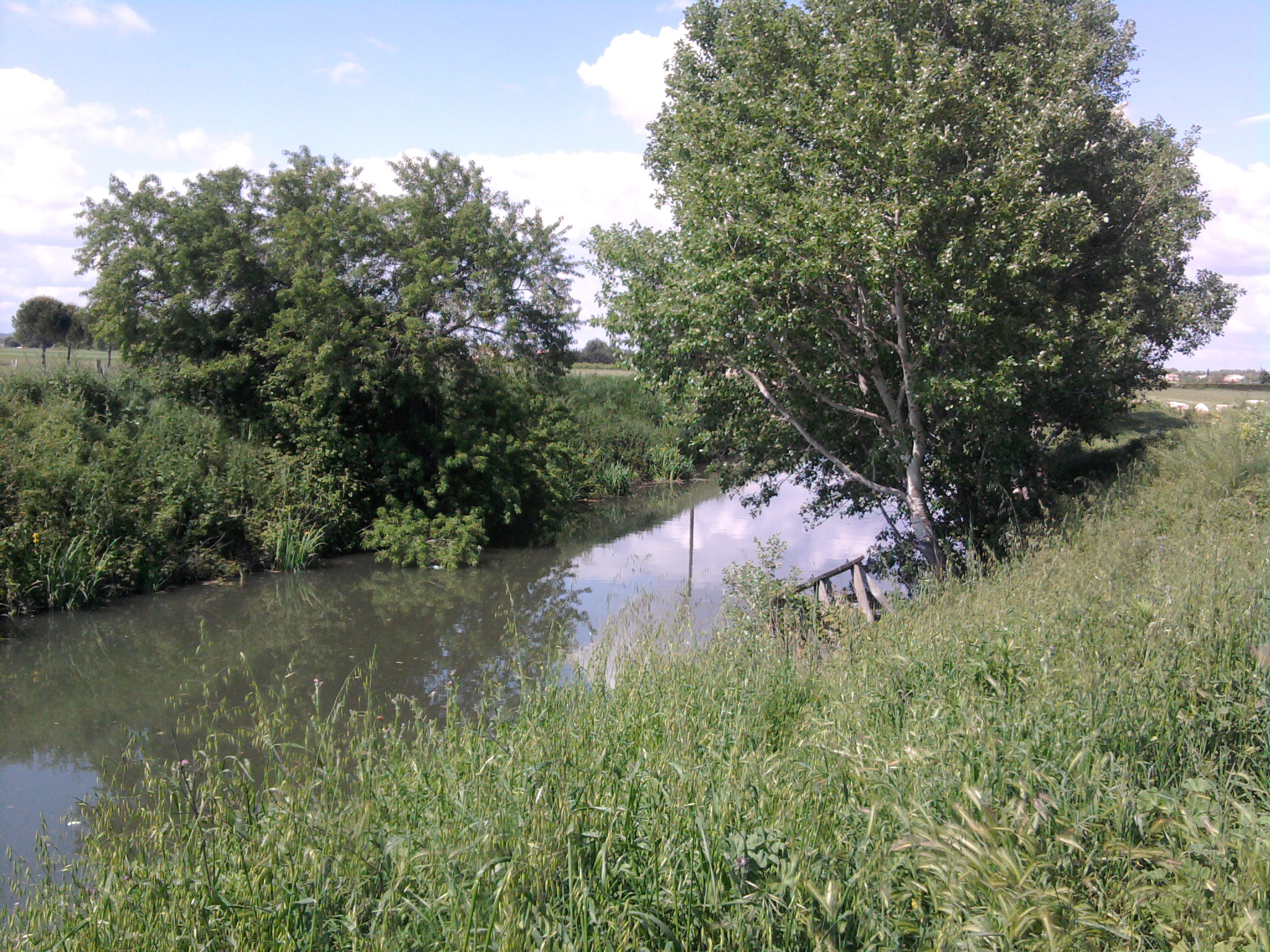 A view of the Canal of Lunèl.